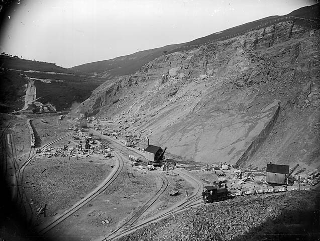 1 negative : glass, dry plate, b&w ; 16.5 x 21.5 cm.